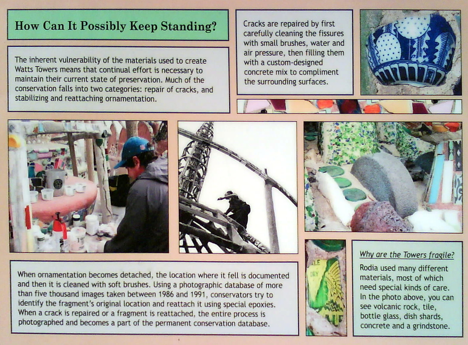 An explanation of how the Watts Towers survive